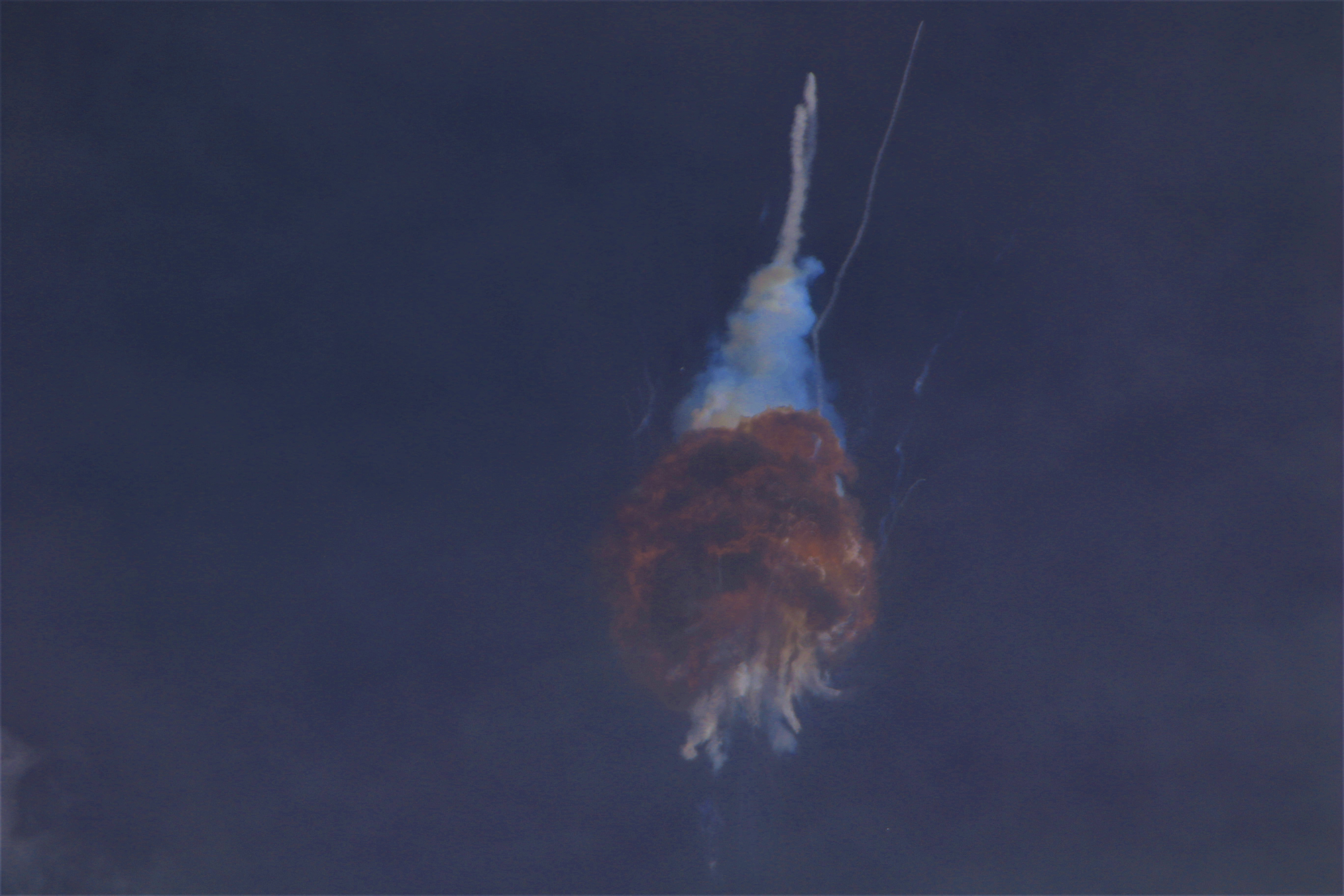 Test Abort B1046 (64)